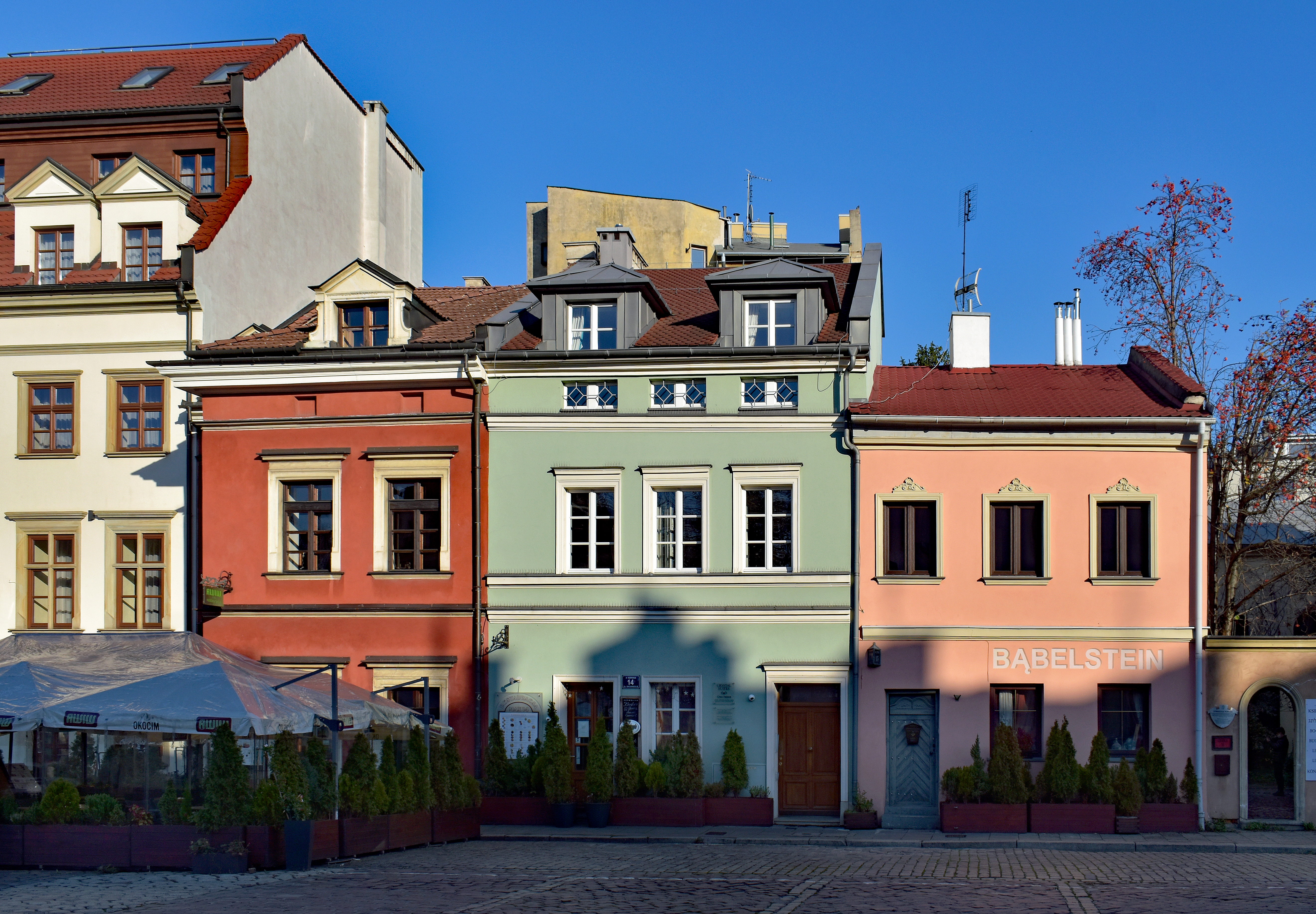 Tenement, 15 Szeroka street, Kazimierz, Krakow, Poland